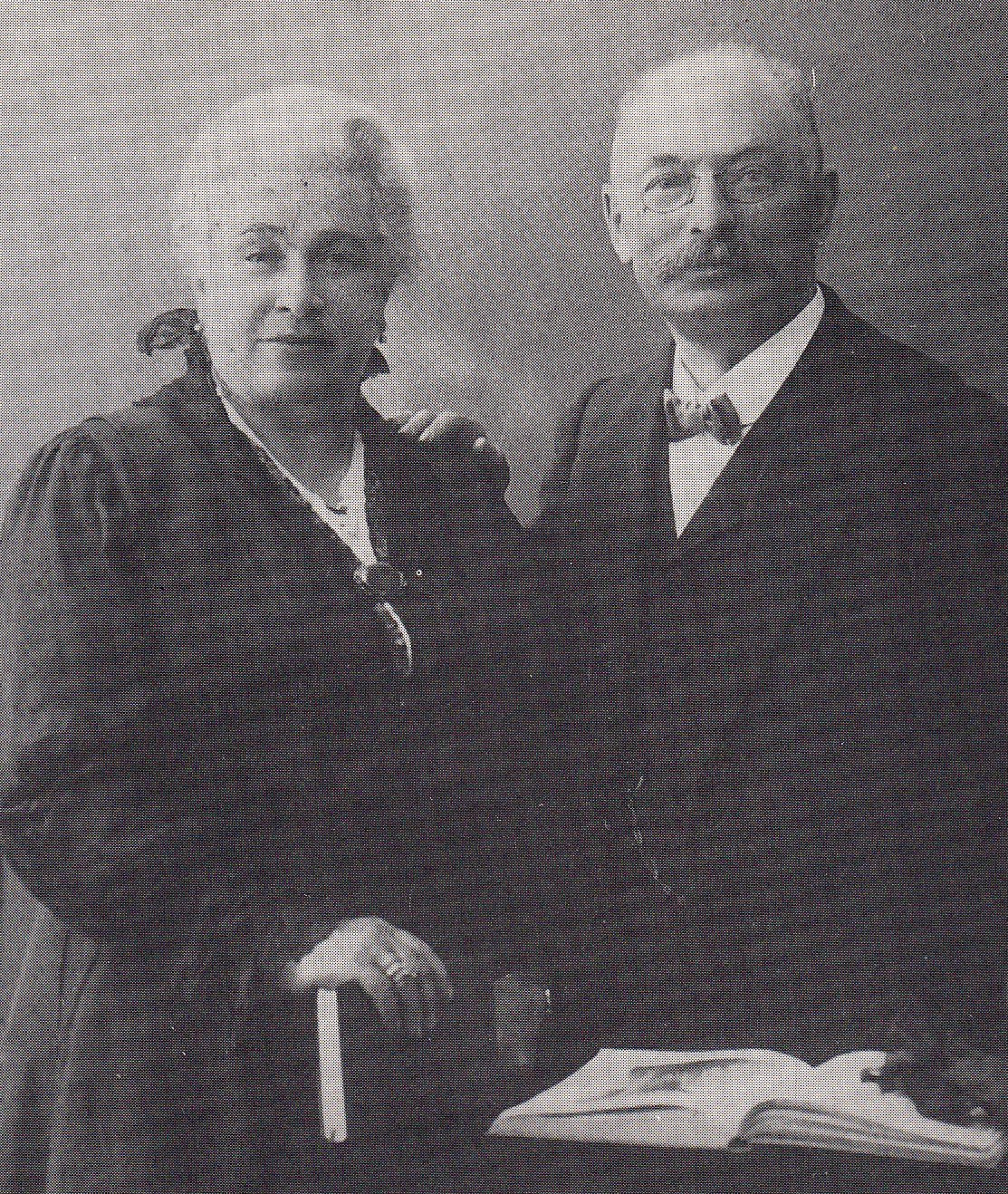 Sarah „Serry“ Bamberger (1863–1925), née Ellmann, with her husband Philipp Bamberger (1858–1919). Since 1881 he and his brother Fritz (1862–1942) were in charge of the company D. Bamberger Palmkorb- und Möbelklopfer-Fabrik of Lichtenfels, Upper Franconia, Bavaria, Germany. The company was found in Mitwitz by his father David (1811–1890). Philipp and Fritz started to build up the company's location in Lichtenfels in 1875 when they were still minors.